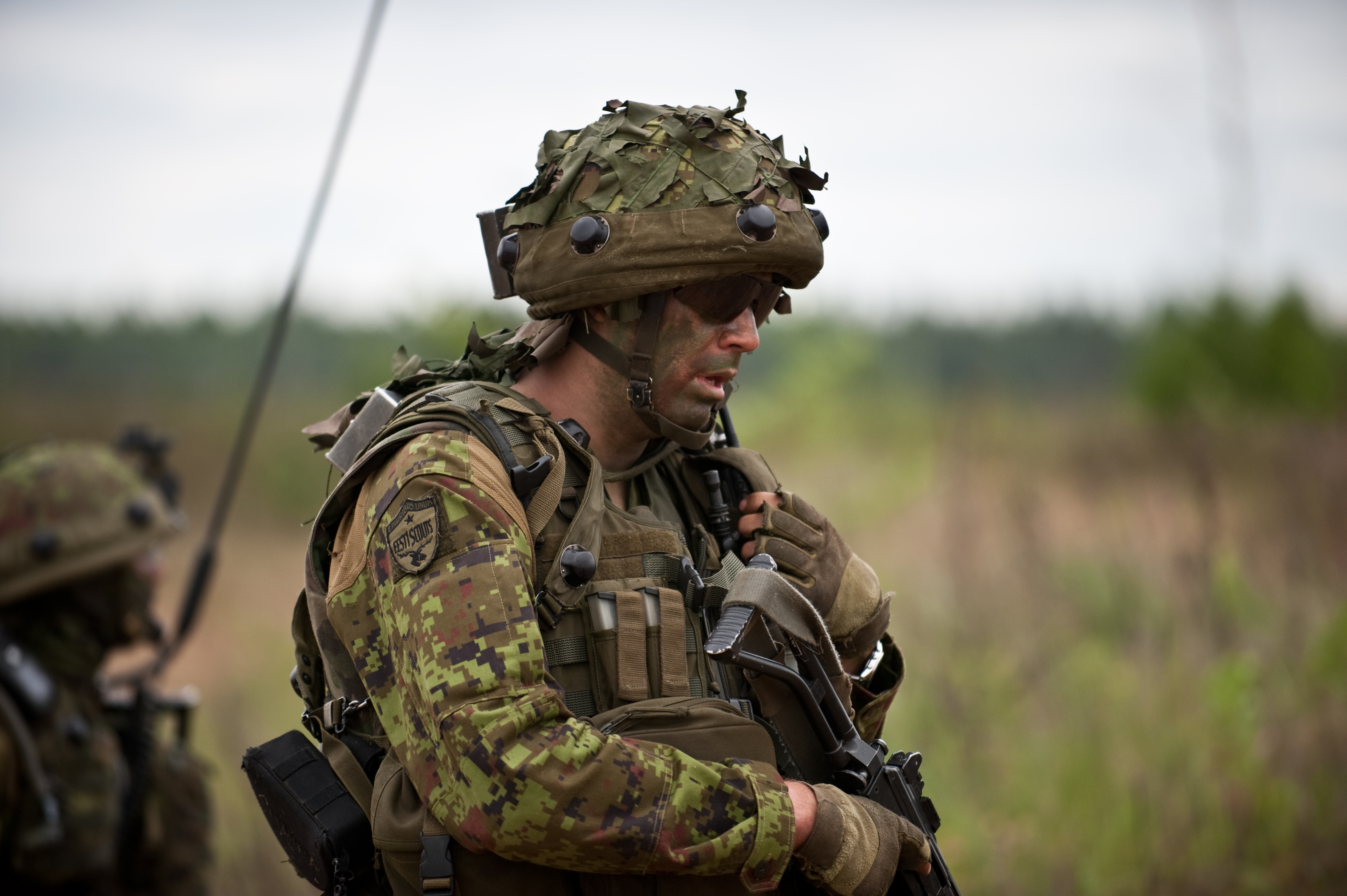 Adazi Training Area, LATVIA – An Estonian Soldier conducts a radio check during a situational training exercise defense lane here, June 10, 2014. Saber Strike 2014 is a joint, multi-national military exercise scheduled for June 9- 20. The exercise spans multiple locations in Lithuania, Latvia and Estonia, and involves approximately 4,700 personnel from 10 countries. The exercise is designed to promote regional stability, strengthen international military partnerships, enhance multinational interoperability and prepare participants for worldwide contingency operations. (U.S. Army Europe photo by Spc. Joshua Leonard)